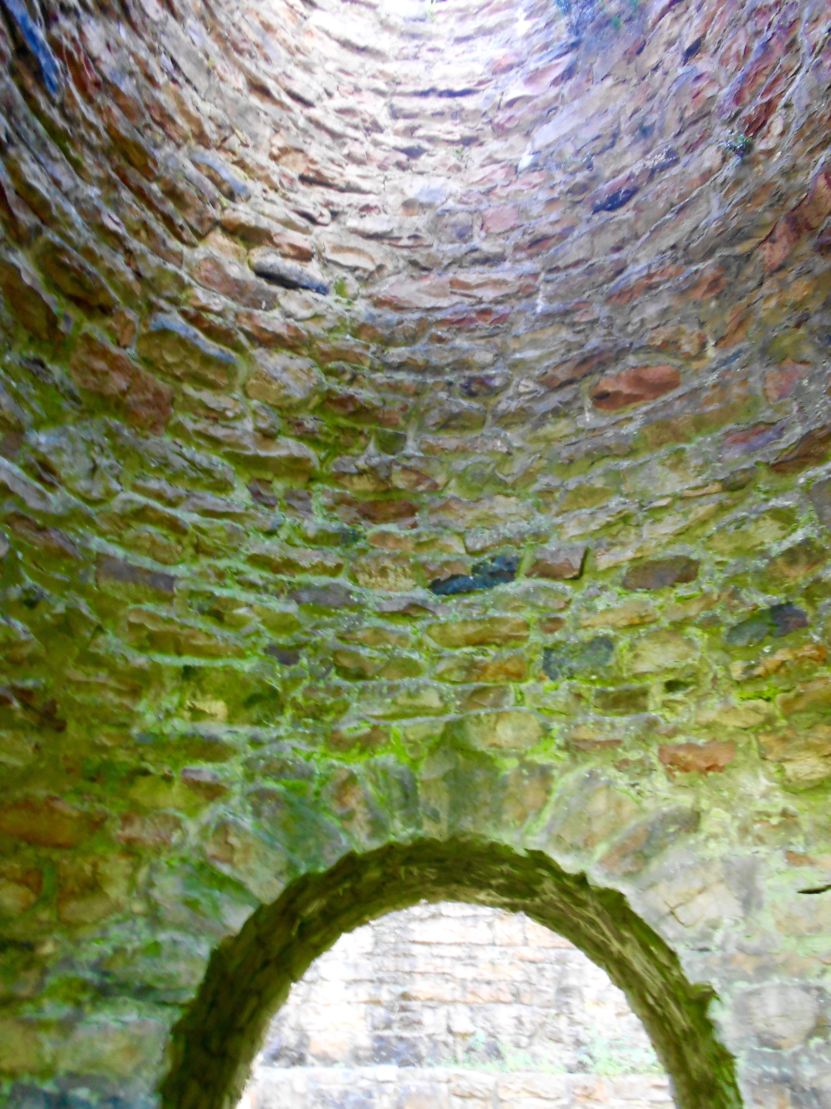 Inside of the rebuilt Greenwood Furnace in the Greenwood Furnace State Park in Huntingdon County, Pennsylvania. The furnace was rebuilt in the 1930s - I doubt the inside would look so clean othersise.